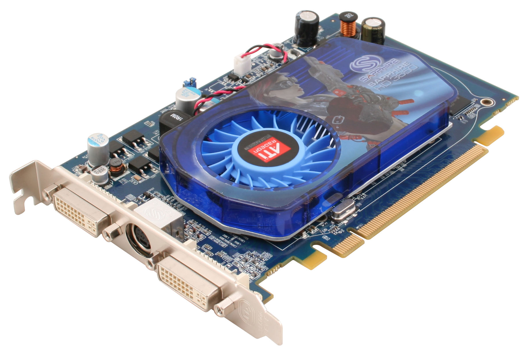 ATI Sapphire Radeon HD 3650 512MB DDR2 PCI-E